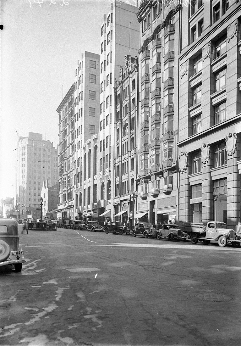 Format: Negative Find more detailed information about this photographic collection: .au/item/itemDetailPaged.aspx?itemID=41989 From the collection of the State Library of New South Wales